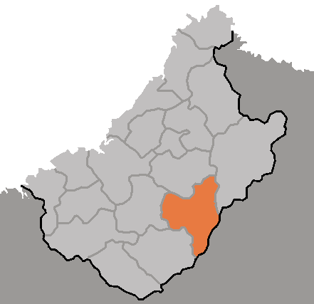 Map of Ryongrim, Chagang-do, DPRK, 2006